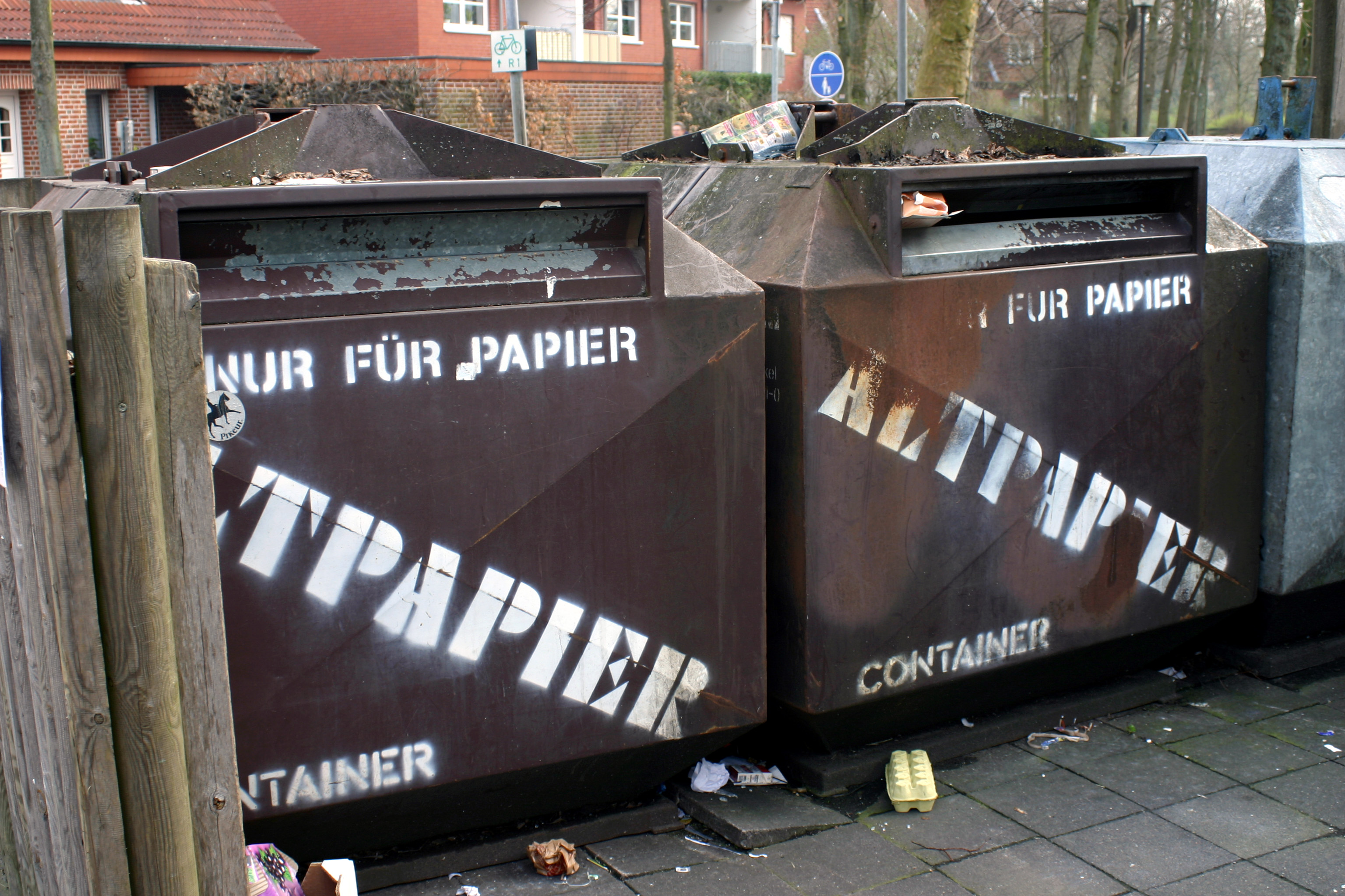 Containers for paper for recycling